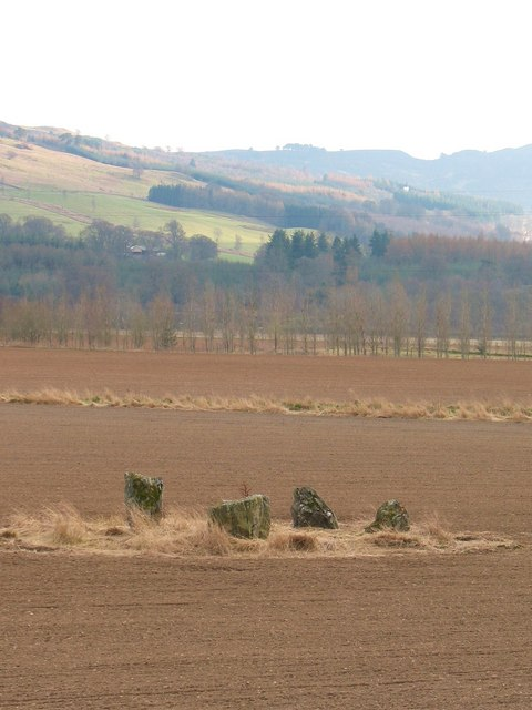 Carse Farm stone circle Just four stones make up this 'circle' near the B846 road.